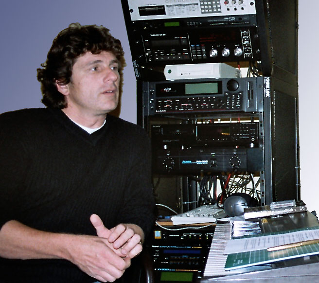 Self-made photo; Brian Clifton in 2004 in his own studio in Kapellen|, Belgium. There is no copyright on this picture.